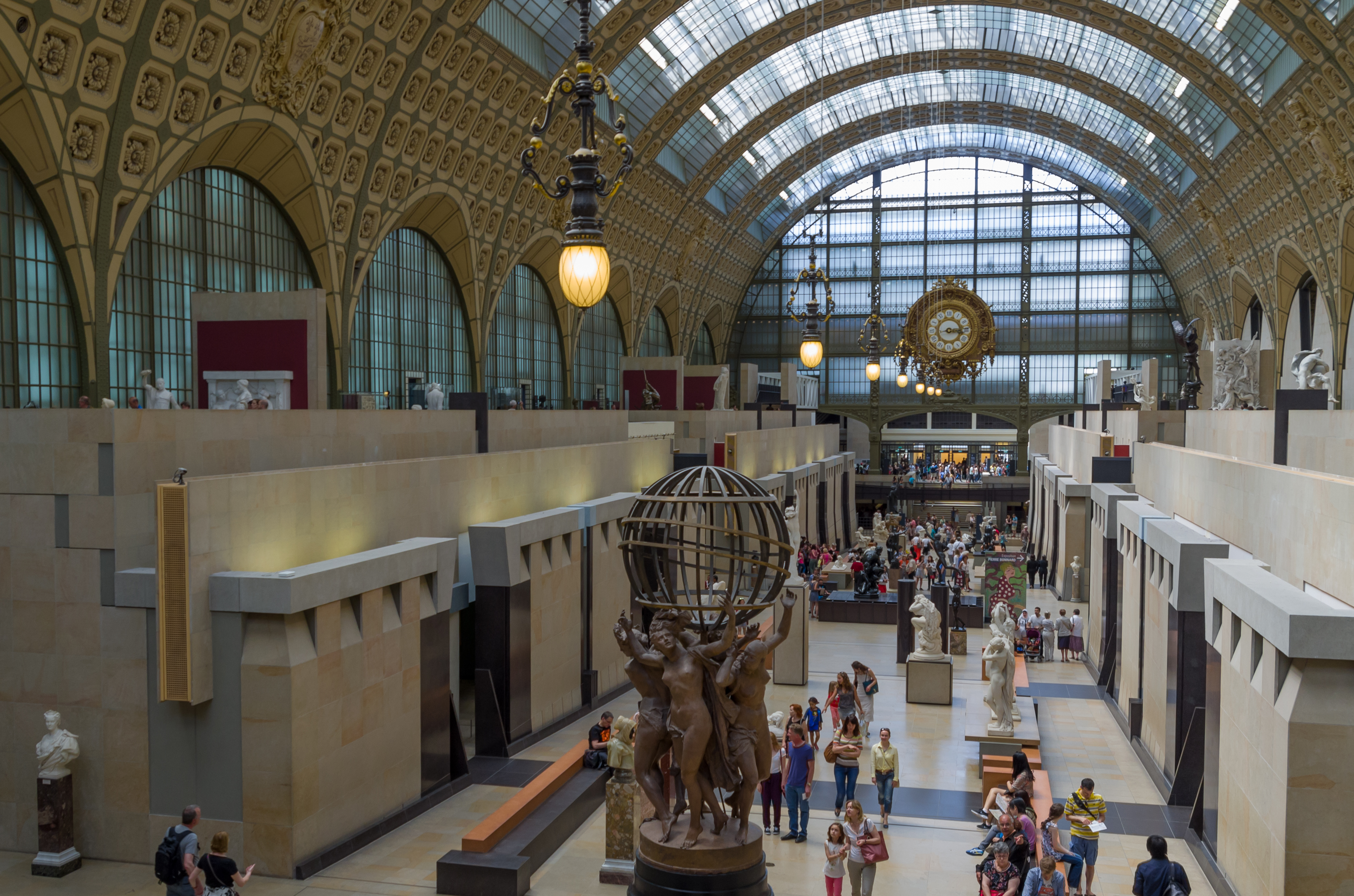 Main hall of the Musée d'Orsay, Paris.